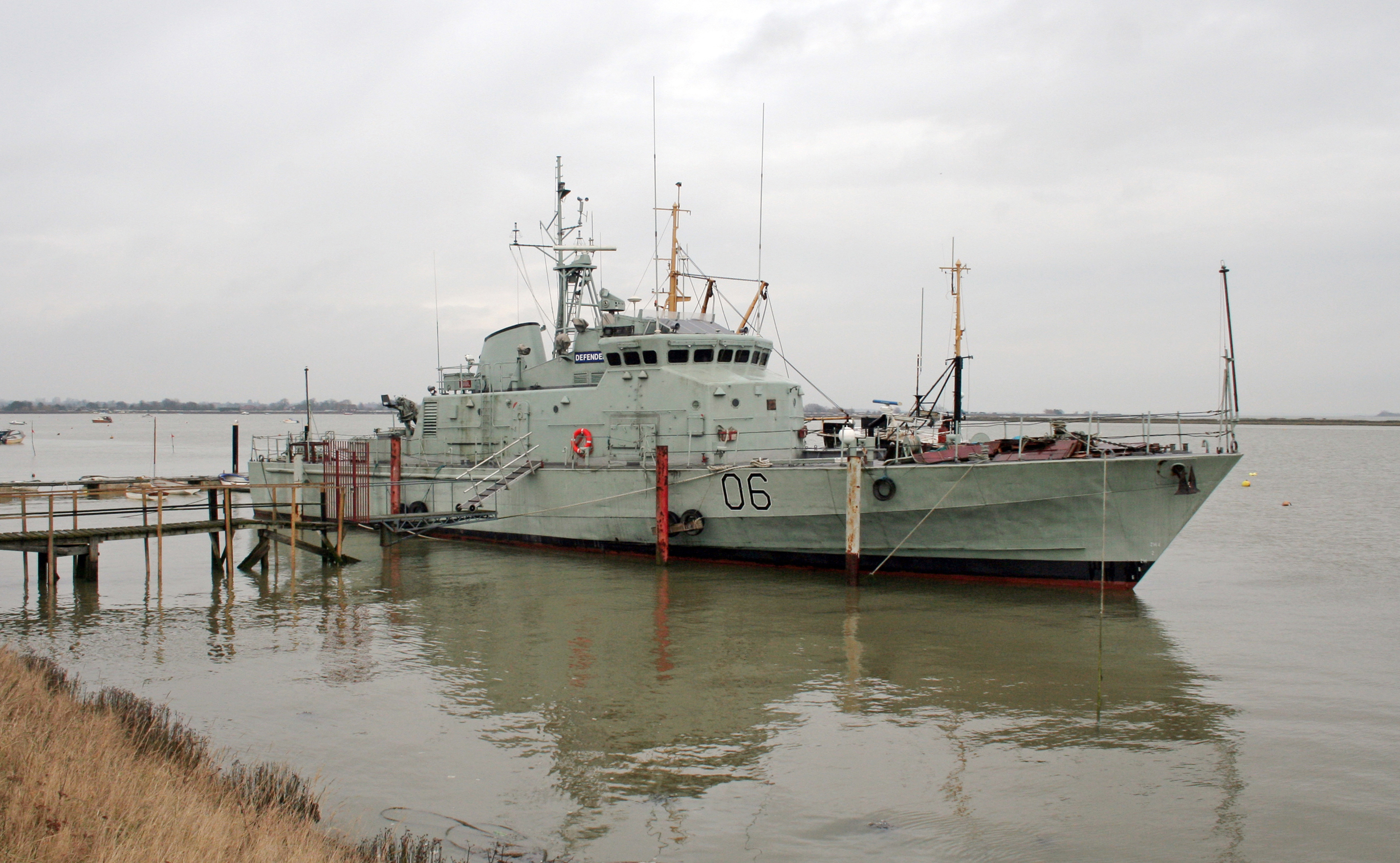 The Lowestoft Defender moored at Heybridge Basin, Essex. Built in the 1970s by Brooke Marine of Lowestoft for the Royal Navy of Oman, the fast attack boat served for almost 20 years as the Al Majihad and returned to Lowestoft by donation in 2001.